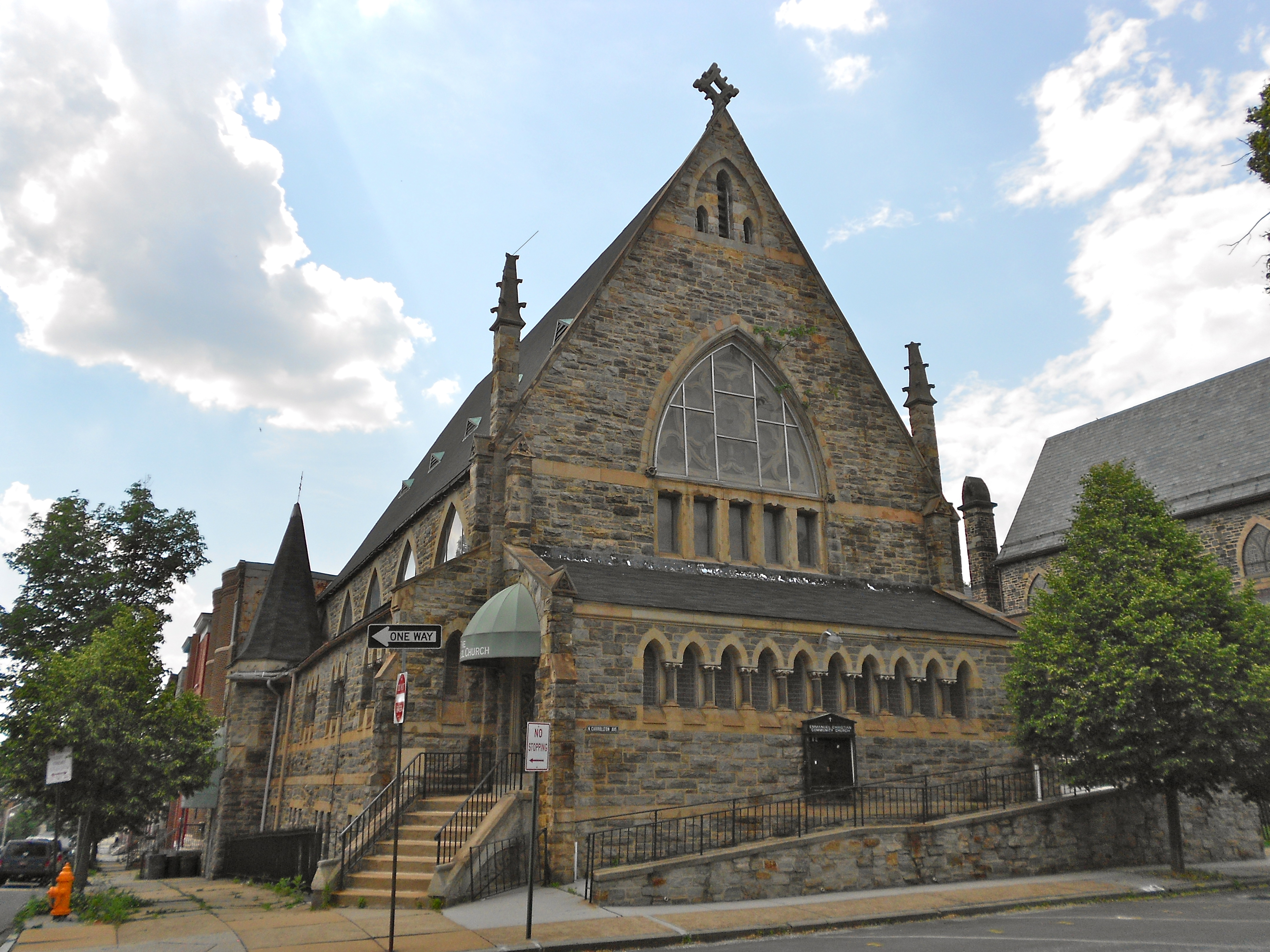 Cummins Memorial Church (now Emmanuel Church) on the NRHP since October 31, 1979 at 1210 W. Lanvale St, Batimore. on the park